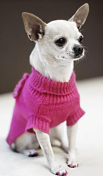 Fashionable light-haired Chihuahua